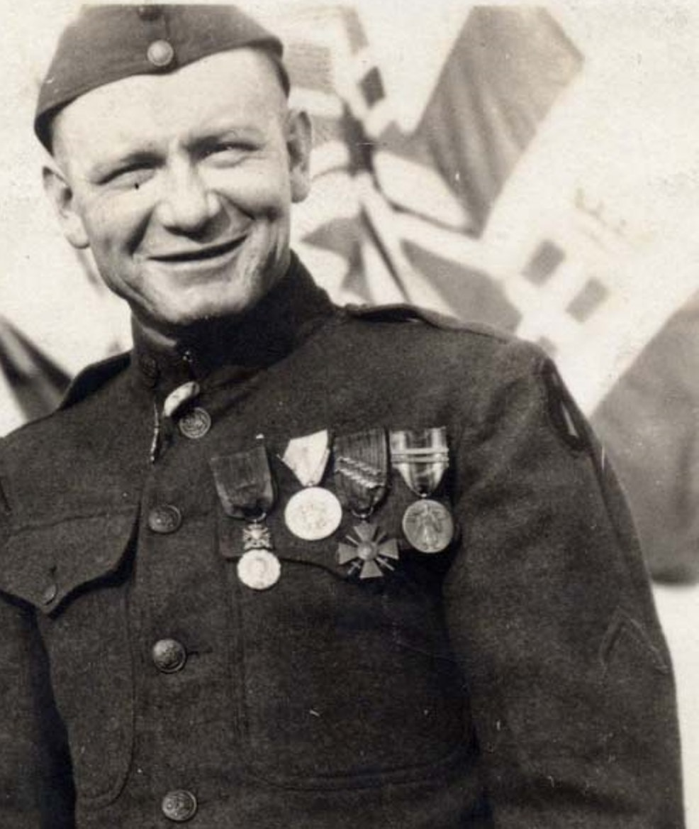 WWI Medal of Honor recipient Harold I. Johnston. He wears the Medal of Honor at his throat (it is turned sideways in the photograph), the French Médaille militaire, the Montenegrin Medal for Military Bravery, the French Croix de guerre with two bronze palms and the World War I Victory Medal with two battle clasps.